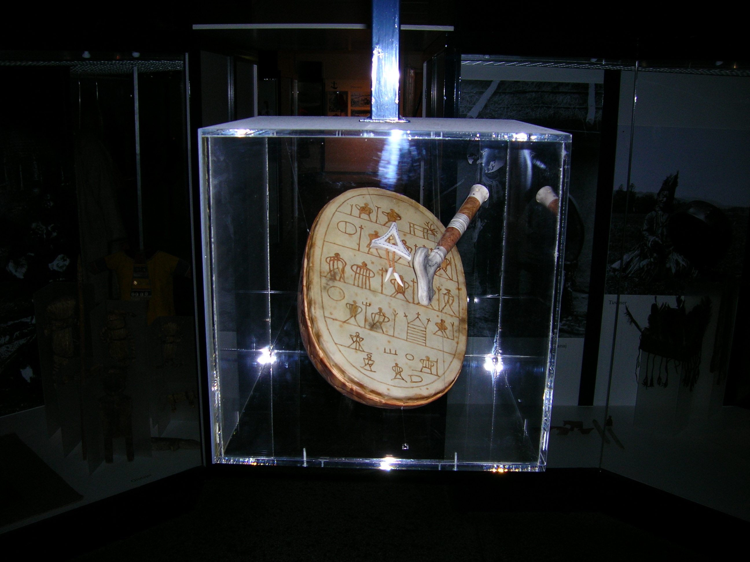 Copy of the rune drum belonging to the 100 year old Saami Anders Paulsen. Cultural Department of the Museum in Oslo, Norway. The rune drum was confiscated by the authorities of Vadsø in 1691. In 1694 it was transfered to the Royal Art Cabinet in Copenhagen, Since 1979, it has been kept in the saami Museum in Karasjok, county of Finnmark, Norway. Photo May 31, 2007 with a Nikon Coolpix 5600 5,1 Megapixel camera.